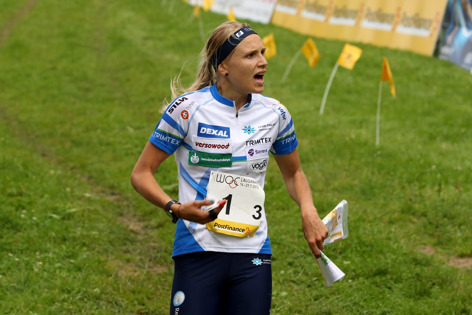 Minna Kauppi